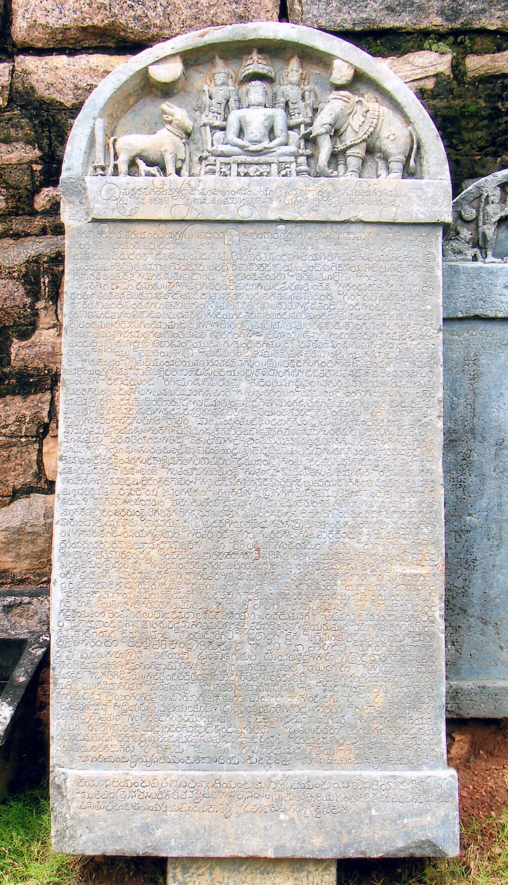 The Photograph of an Old Kannada inscription (c. 1220 CE) of the Hoysala Empire was taken by self (Dinesh Kannambadi) at the Ishwara temple (also spelt Isvara) in Arasikere, Hassan district, Karnataka state, India